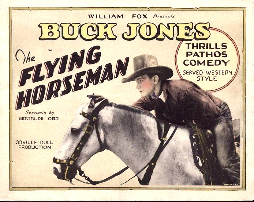 Lobby card for the American western film The Flying Horseman (1926).